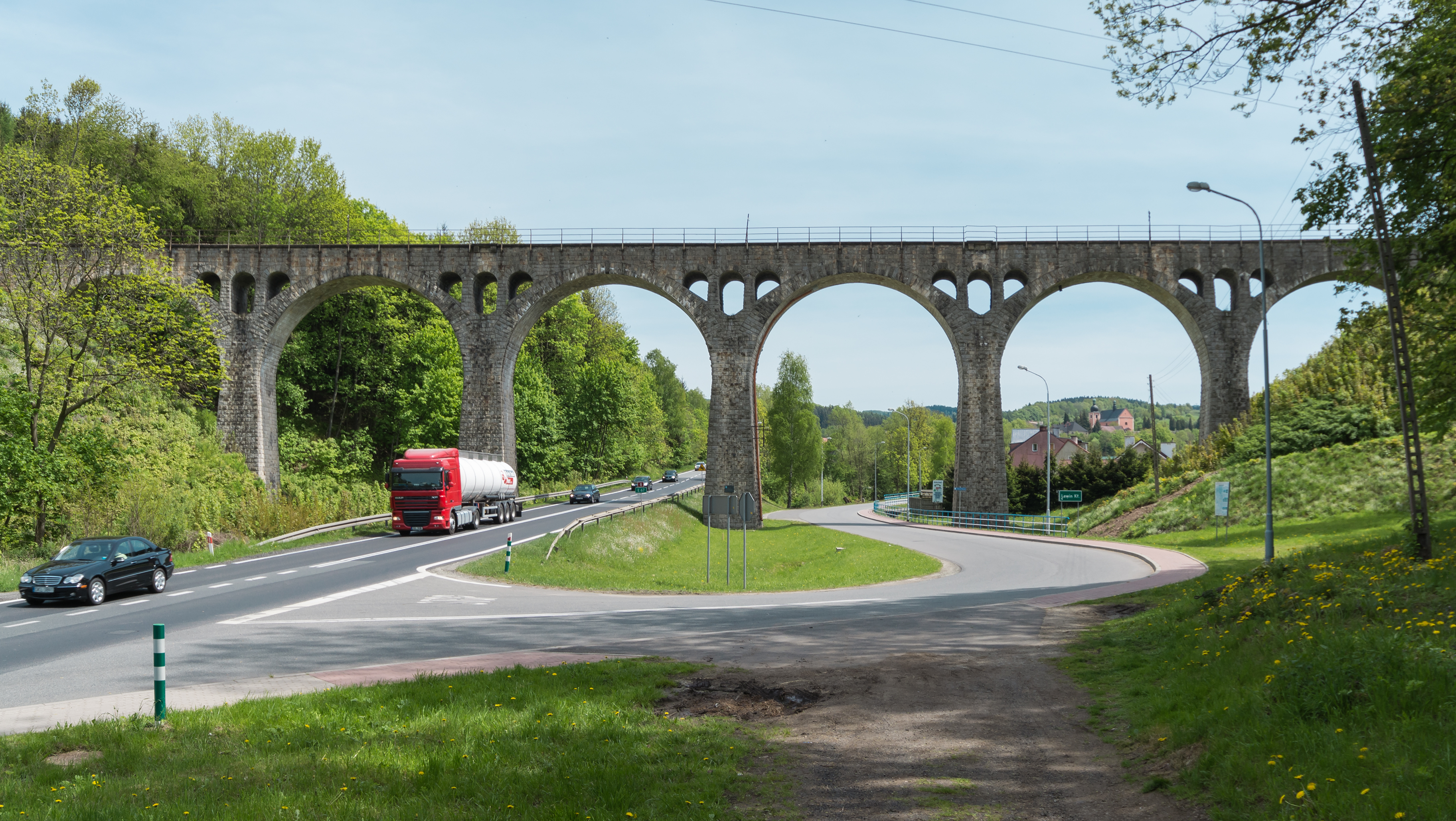 Overpass in Lewin Kłodzki